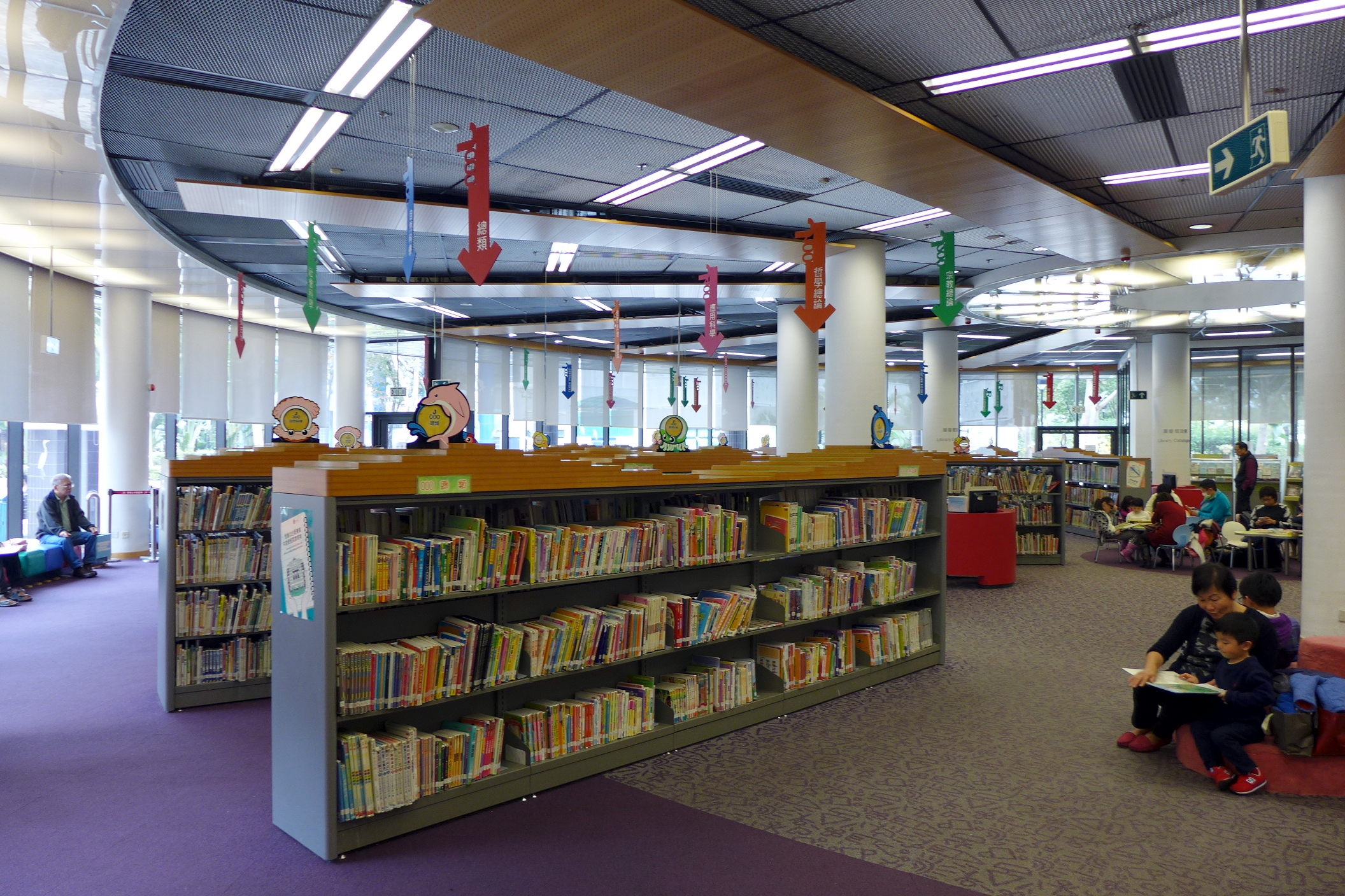 Ma On Shan Public Library Children Library